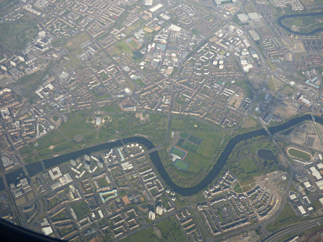 East Glasgow from the air